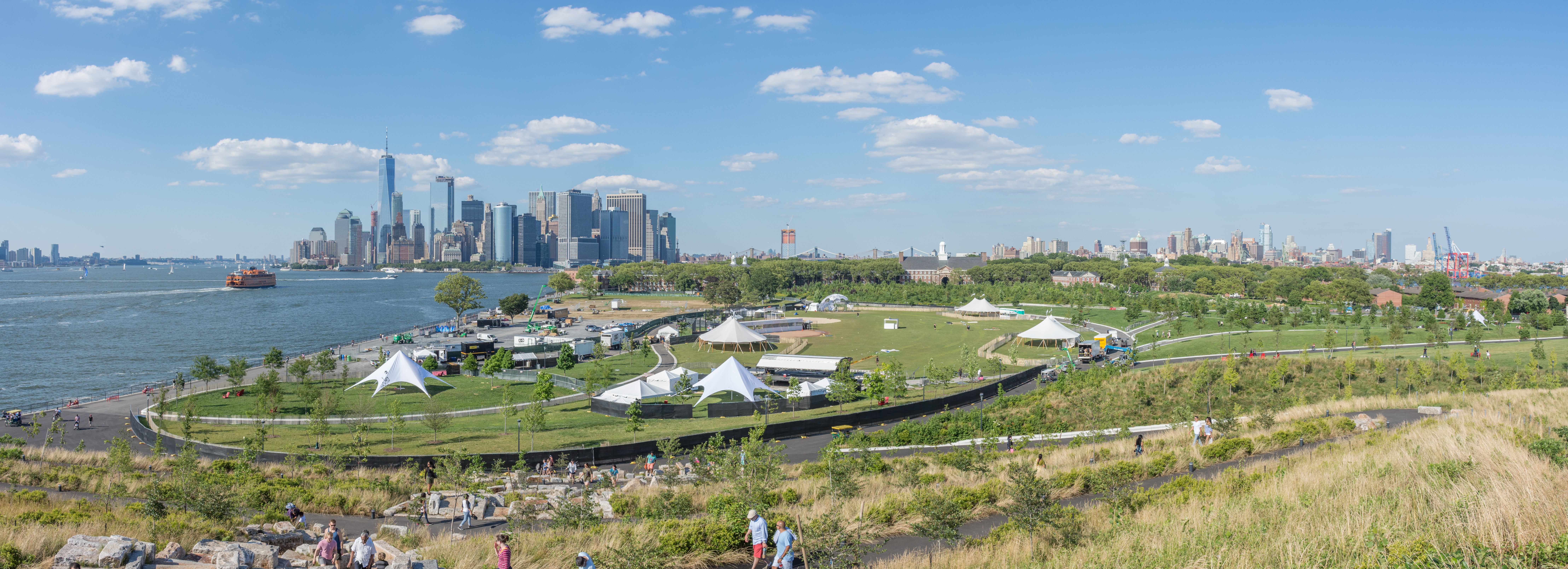 Panorama of Governors Island and the Lower Manhattan skyline, New York City in June 2017.